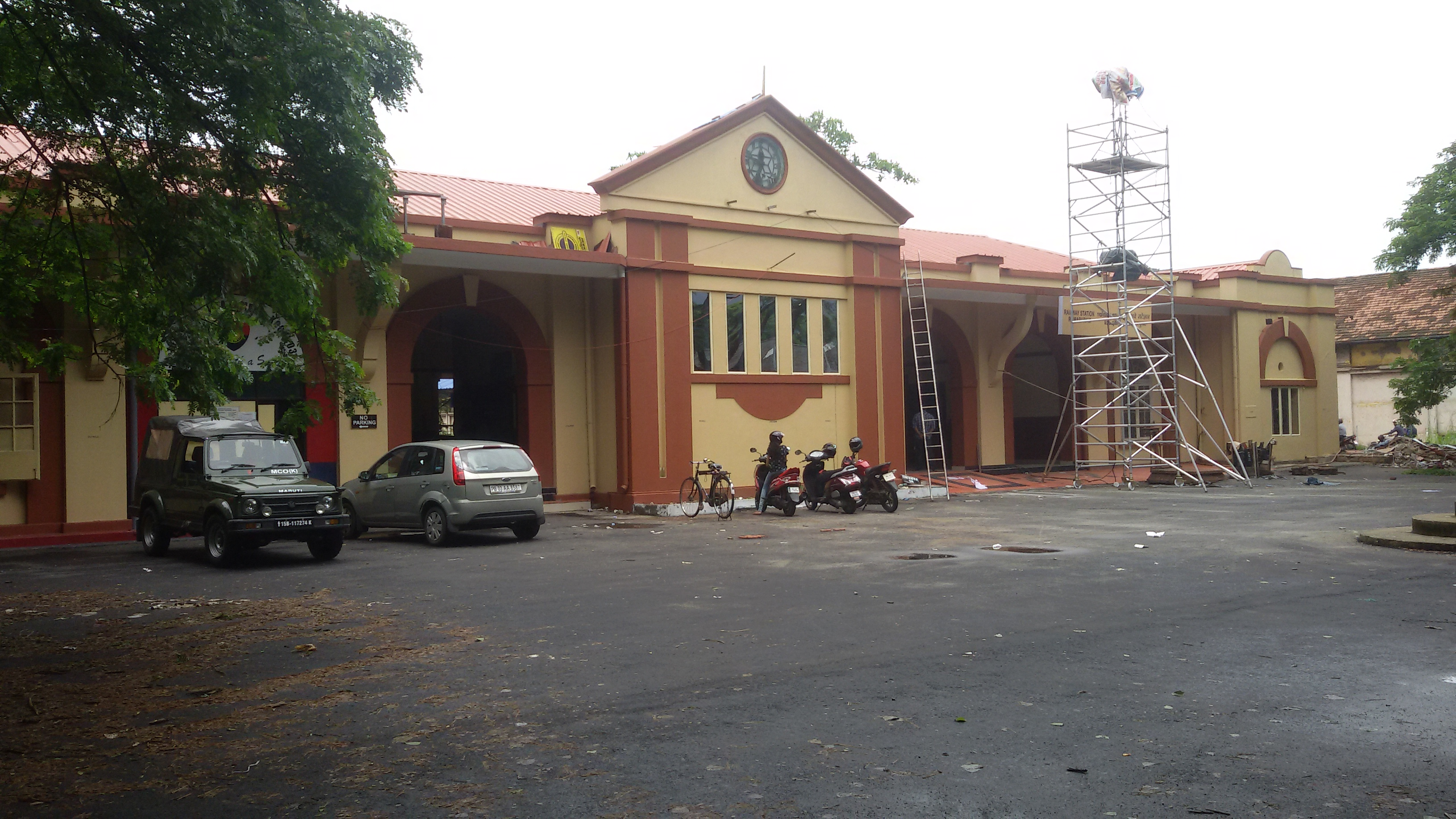 Image of Cochin Harbour Termius (CHTS) station situated at Wellington Island in Kochi. The image shows the entrance and the parking space of the station.